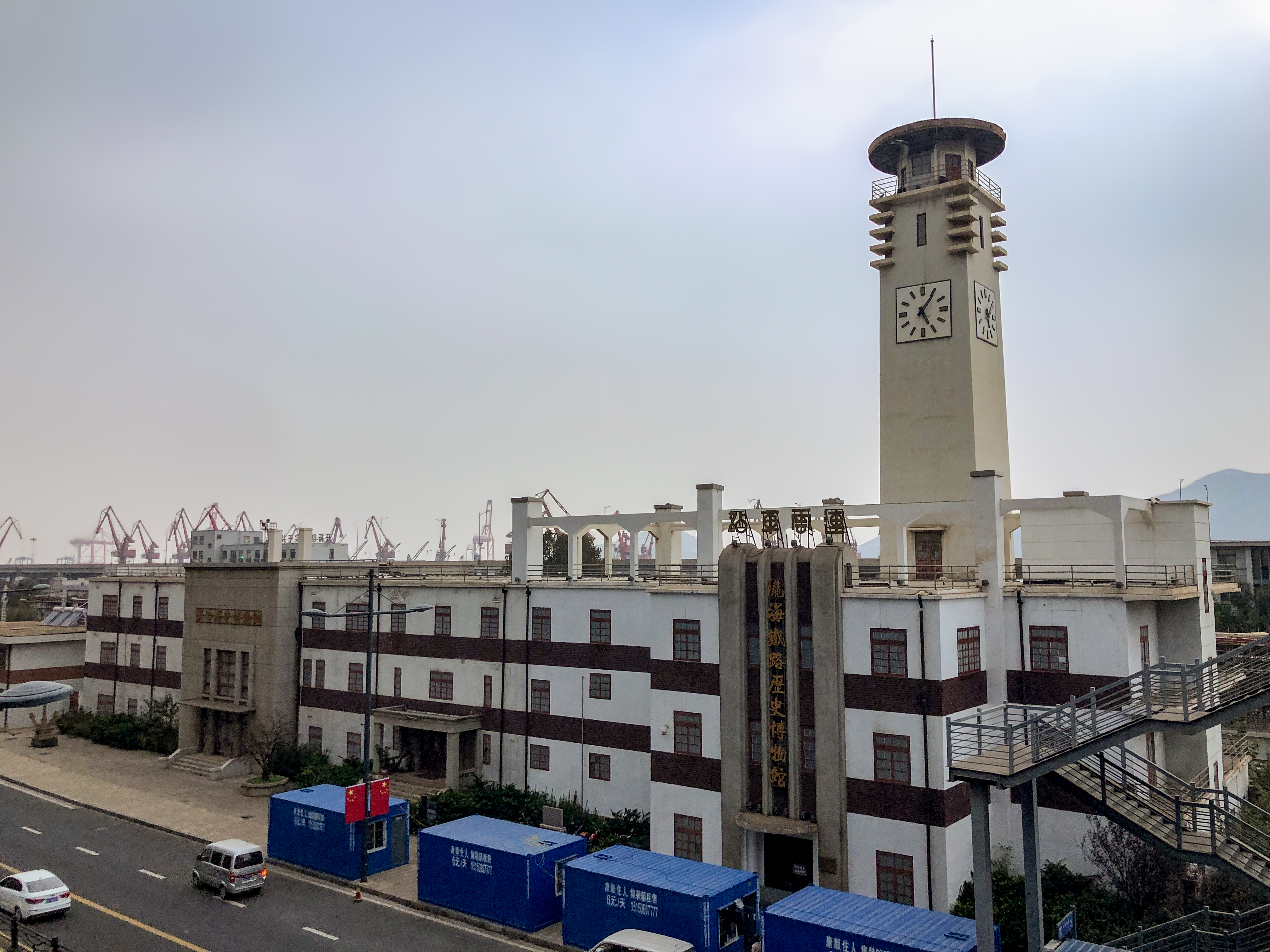 Start of the silk road. Something is under construction on its east, and I think it would be the suburban railway station.